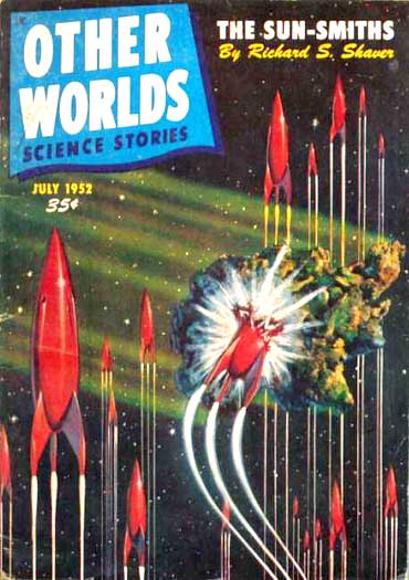 Cover of Other Worlds, July 1952